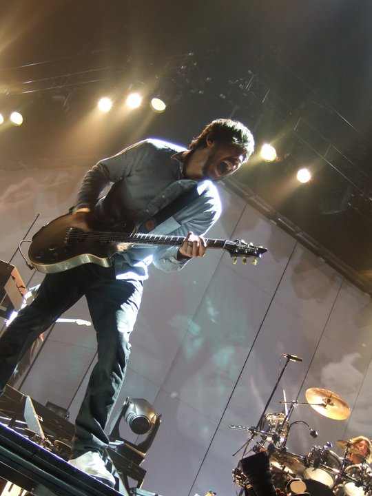 Mike Shinoda Live at Paris